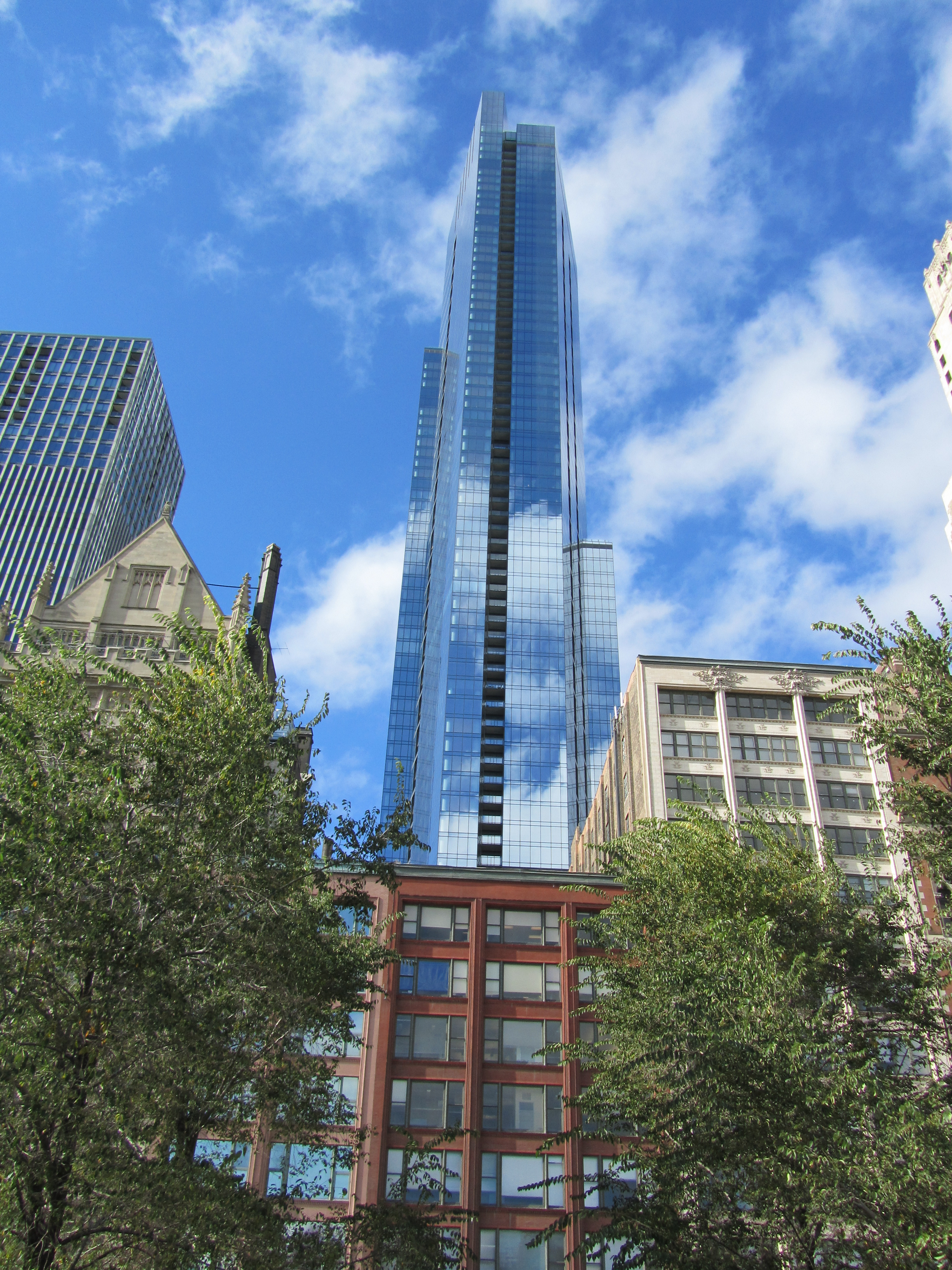 The Legacy Tower, Chicago